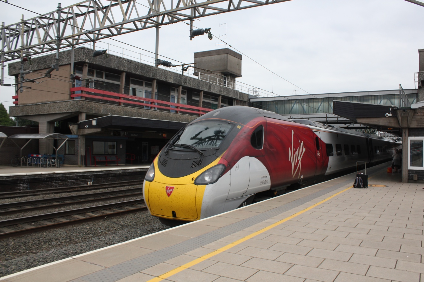 390020 calls at Stafford with a Virgin Trains' service from London to Liverpool. Engineering work has closed Lime Street station today so the 'Pendolino' will have to terminate at Liverpool South Parkway.